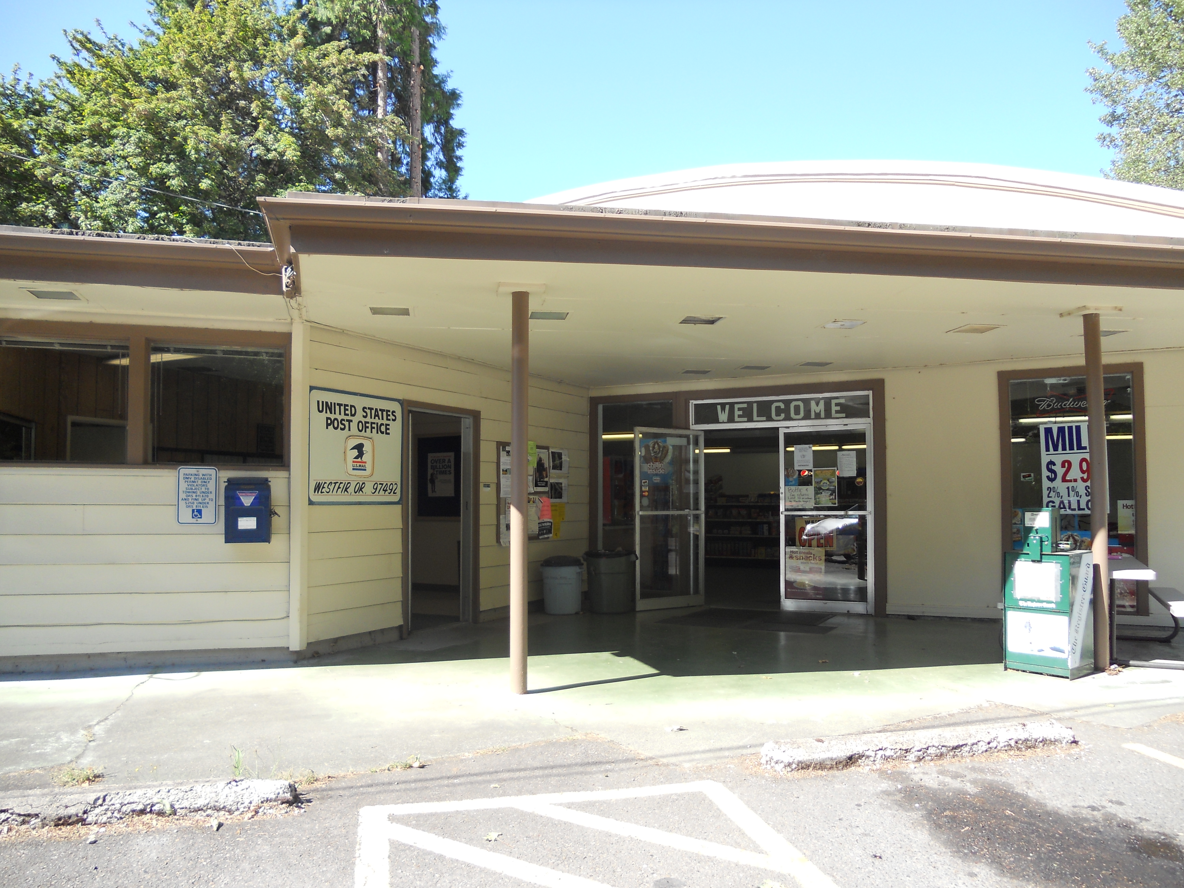 The store and post office at Westfir, a small city in Lane County, Oregon, United States